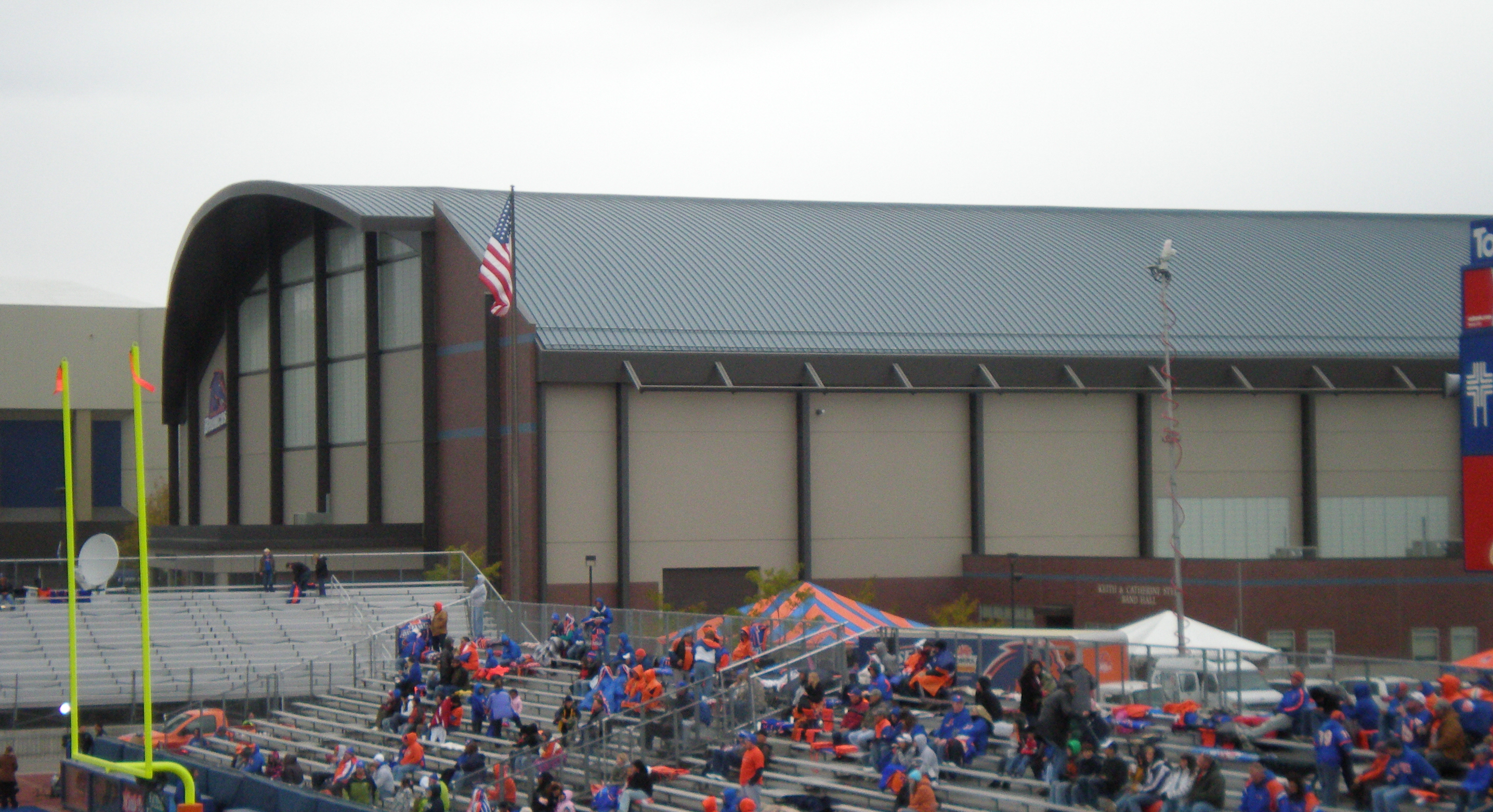 Cavin-Williams Sports complex from inside Bronco Stadium Boise, Idaho